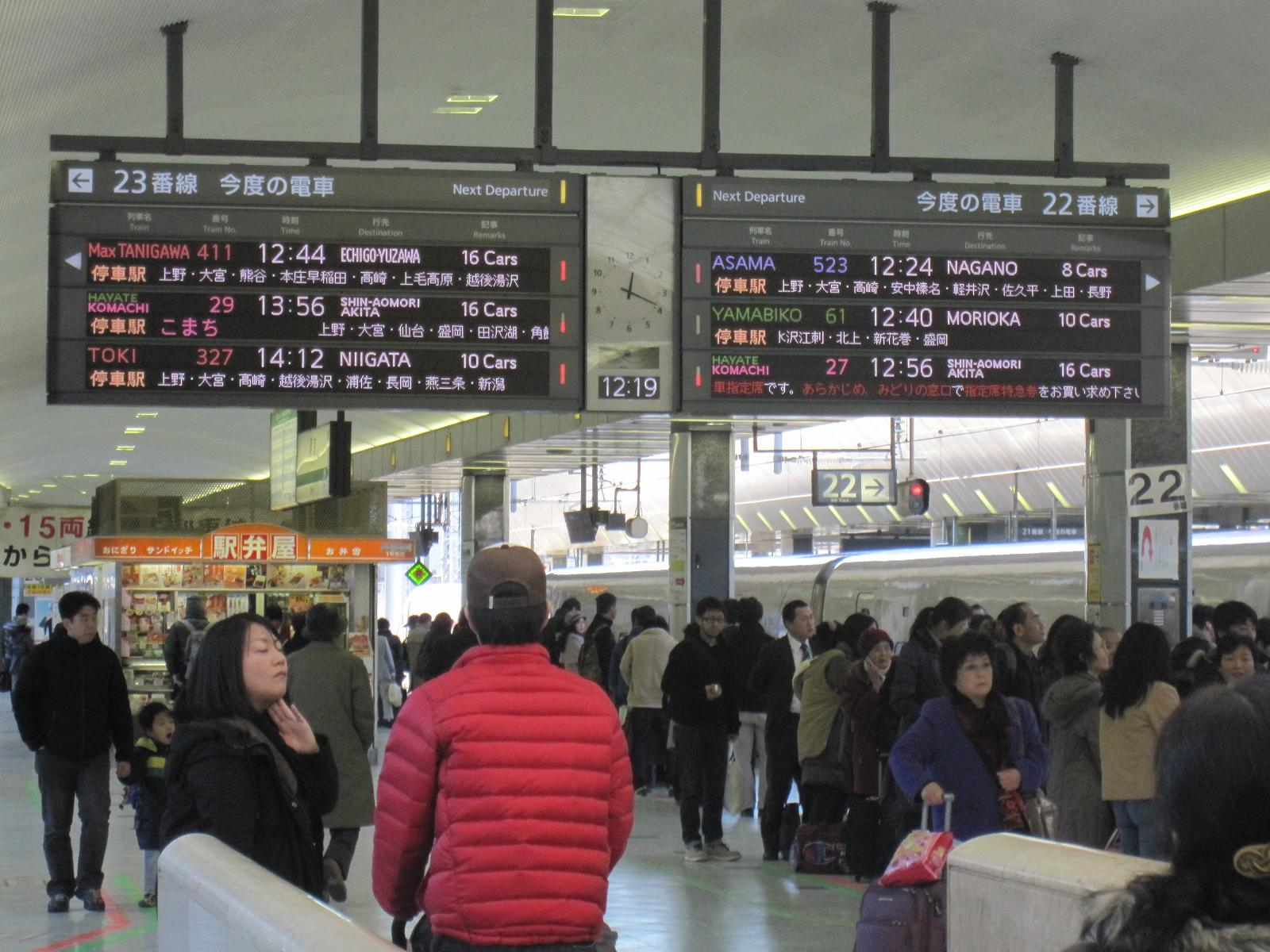 Shinkansen schedule display at Tokyo station